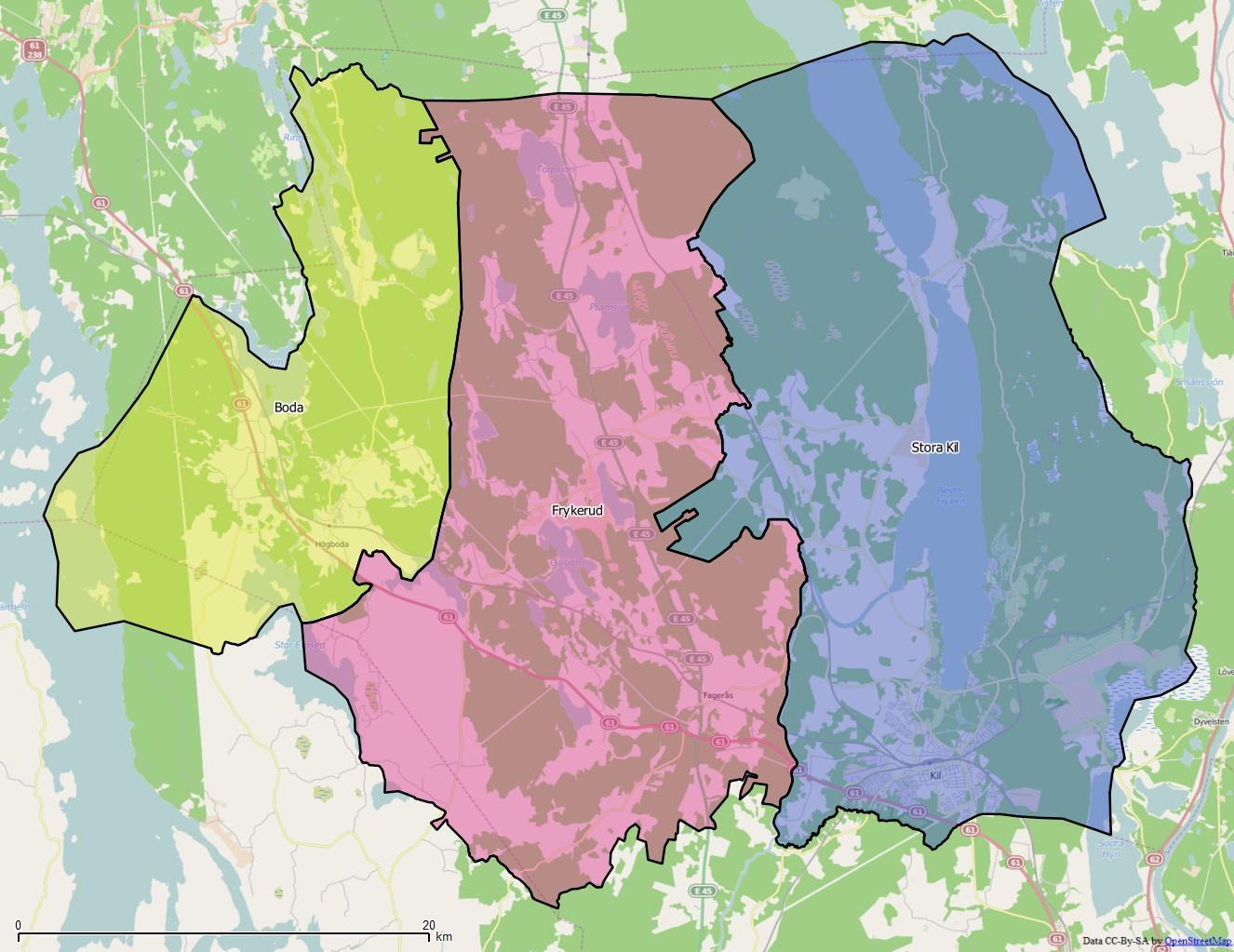 Distriktsindelningen i Kils kommun World file: 45.26349625212904471 0 0 -45.26349625212904471 1437023.64006389048881829 8327381.87475043721497059